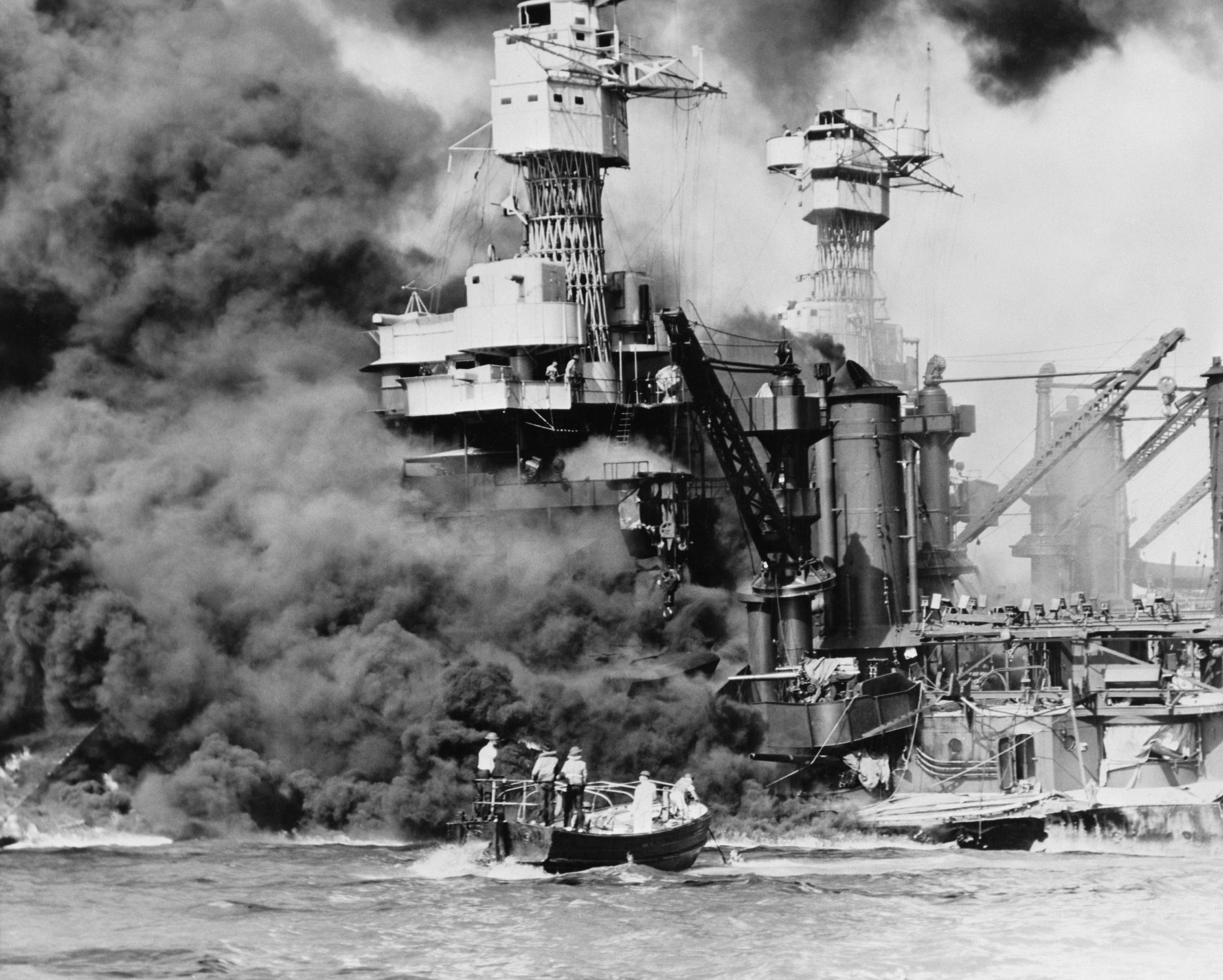 "Pearl Harbor, Hawaii. A small boat rescues a seaman from the 31,800 ton USS West Virginia (BB-48), which is burning in the foreground. Smoke rolling out amidships shows where the most extensive damage occurred. Note the two men in the superstructure. The USS Tennessee (BB-43) is inboard."